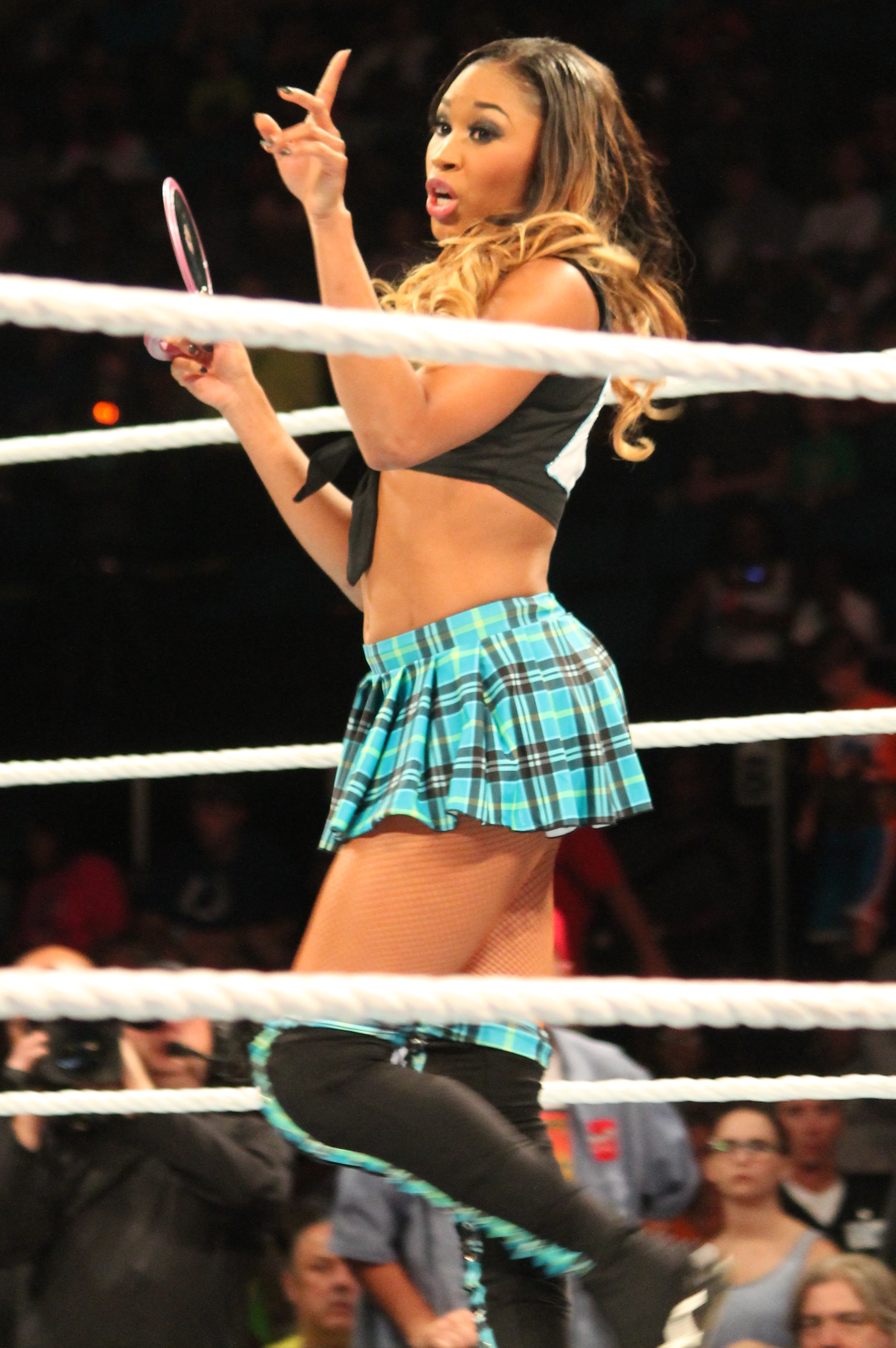 Cameron prior to a match at the SmackDown / Main Event taping on September 16, 2014. Cropped from original.